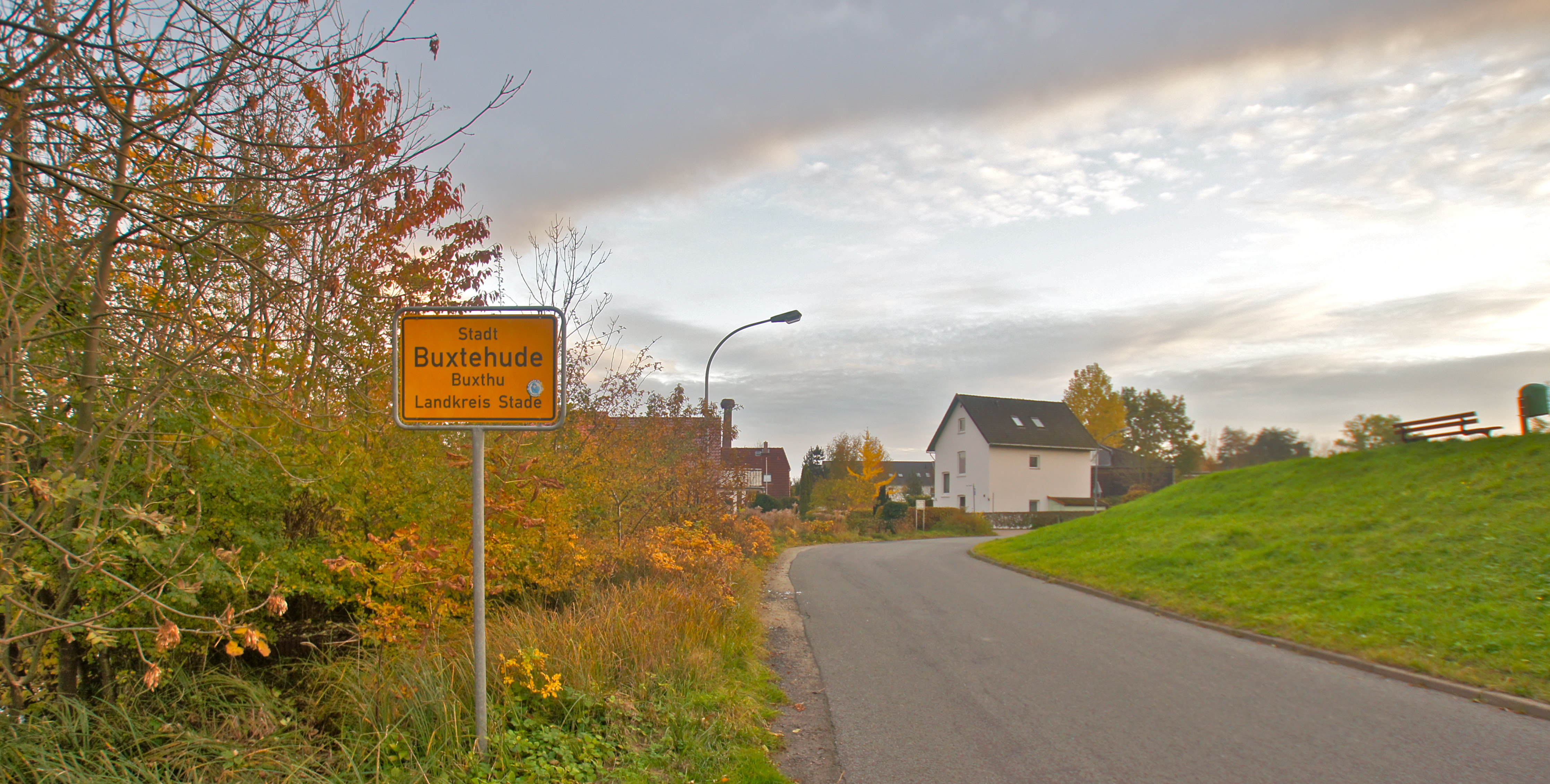 Buxtehude, Germany: Bilingual signa at the norhtern entrance of the city